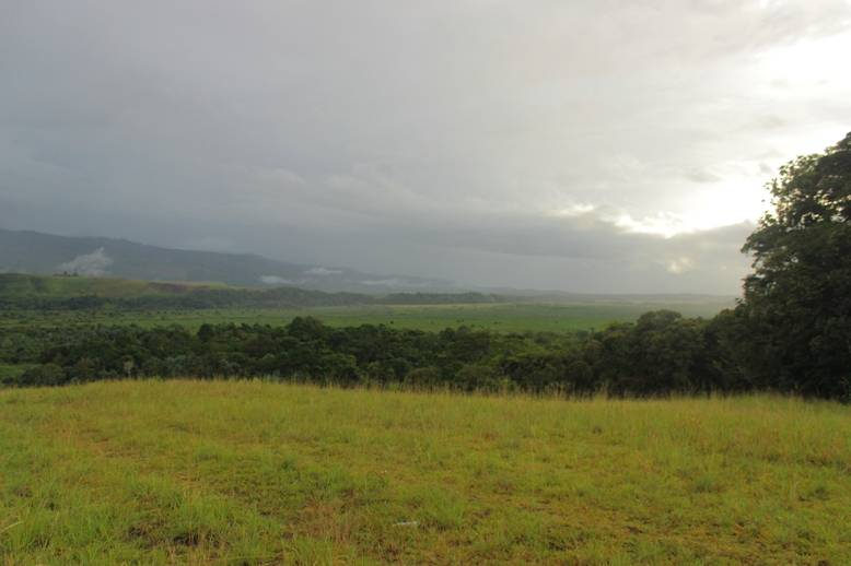 View of the low grasslands in the Kebar Valley